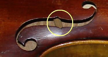 Violin sound post seen through f-hole.